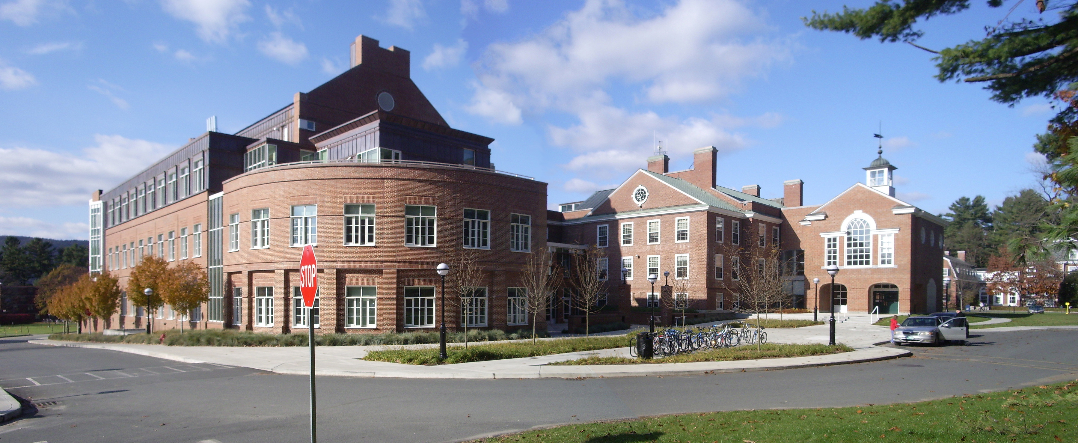 Panoramic view of the Thayer School of Engineering at Dartmouth College in Hanover, New Hampshire. Created from two images using using Hugin and smoothing lines in Adobe Photoshop CS.